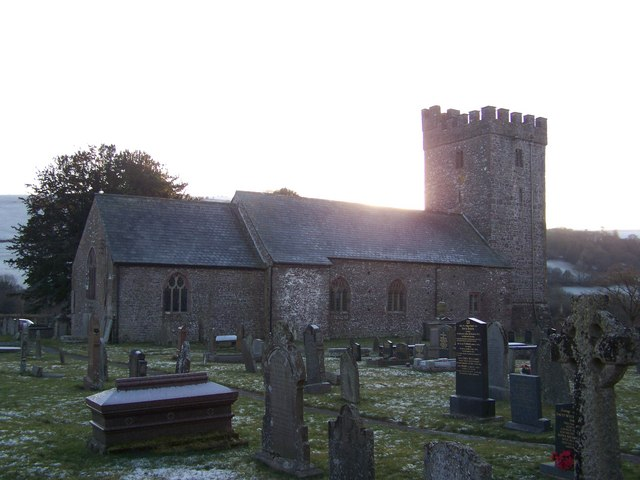 St. David's Church at Llywel St. David's Church stands in the extreme south-east of this grid-square at the foot of the military road leading onto the Epynt Ranges and can be seen from the A40. The current building is largely 15th Century, but contains earlier elements, including a pre-Norman font. According to legend, the church was founded in the sixth century by saint Llywel, a disciple of St. Teilo and was originally dedicated to Ss. David, Darn and Teilo. It is mentioned by Gerald of Wales for having been burnt down in the late twelfth century.